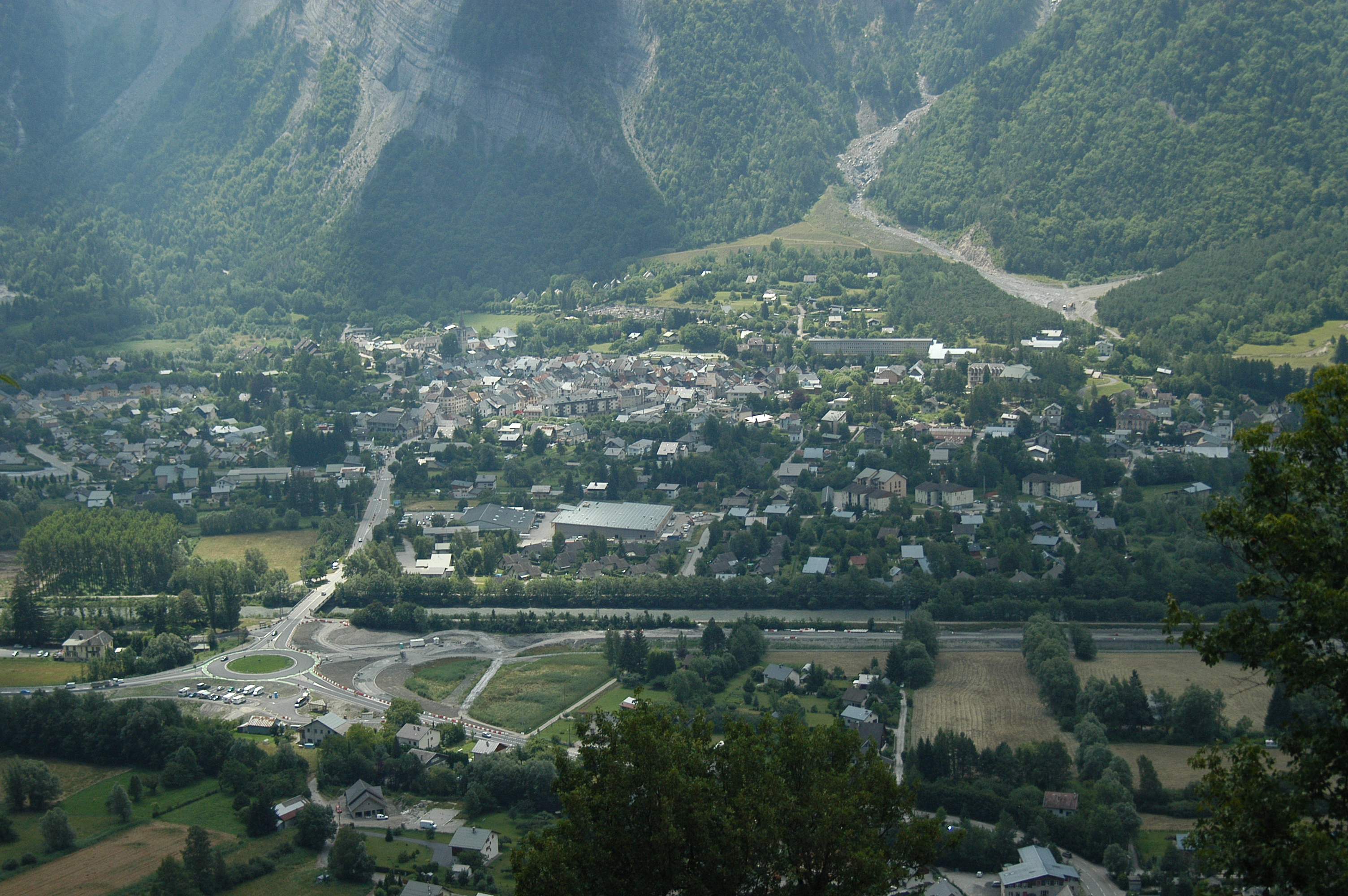 Overview of Le Bourg d'Oisans. Picture is taken from corner 16 of the climb to L'Alpe d'Huez